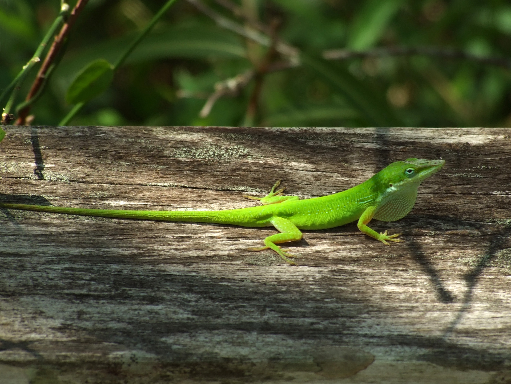 Carolina anole. Photo taken in Corkscrew Swamp Sanctuary